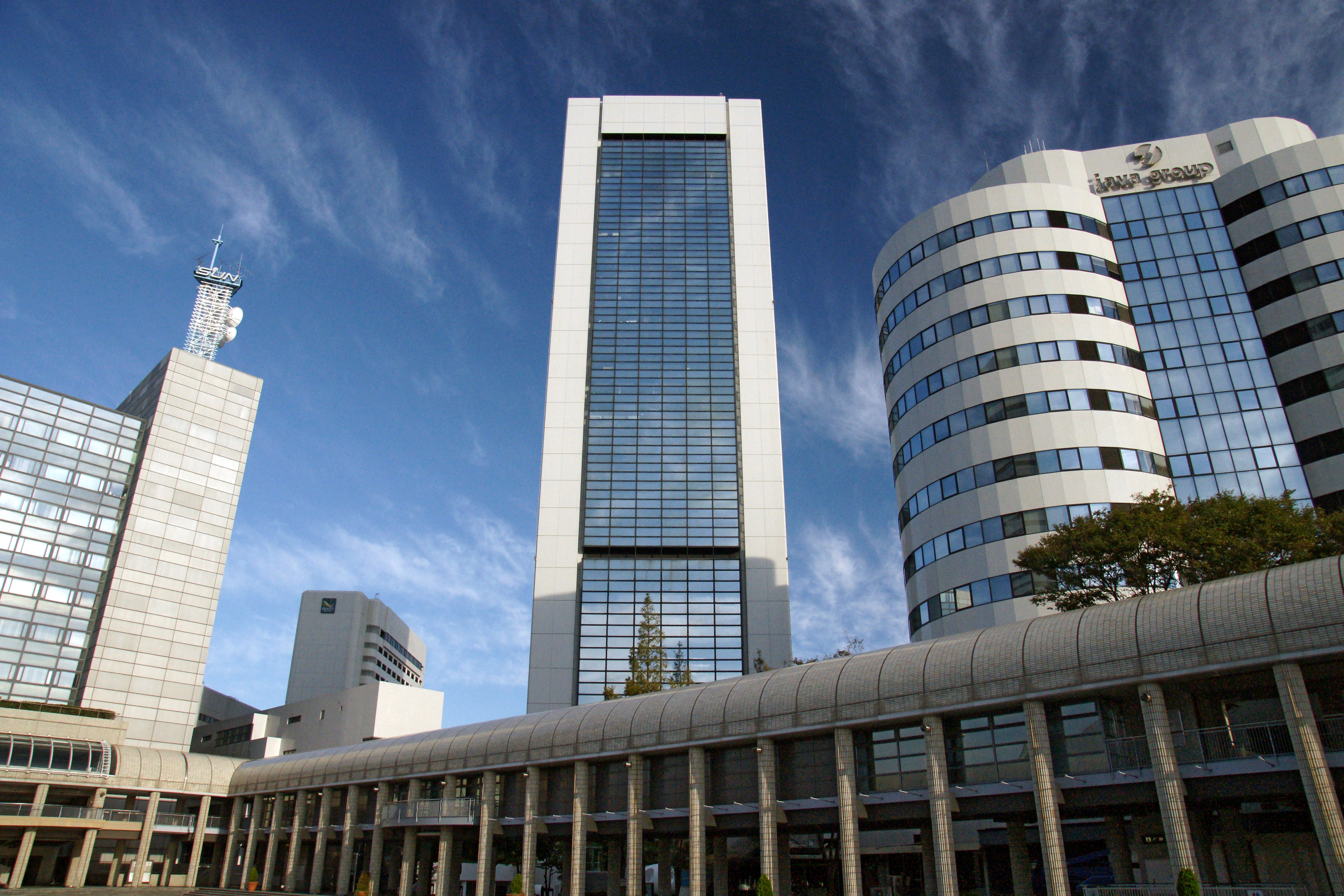 World Co., Ltd. headquarters building in Kobe, Hyogo prefecture, Japan